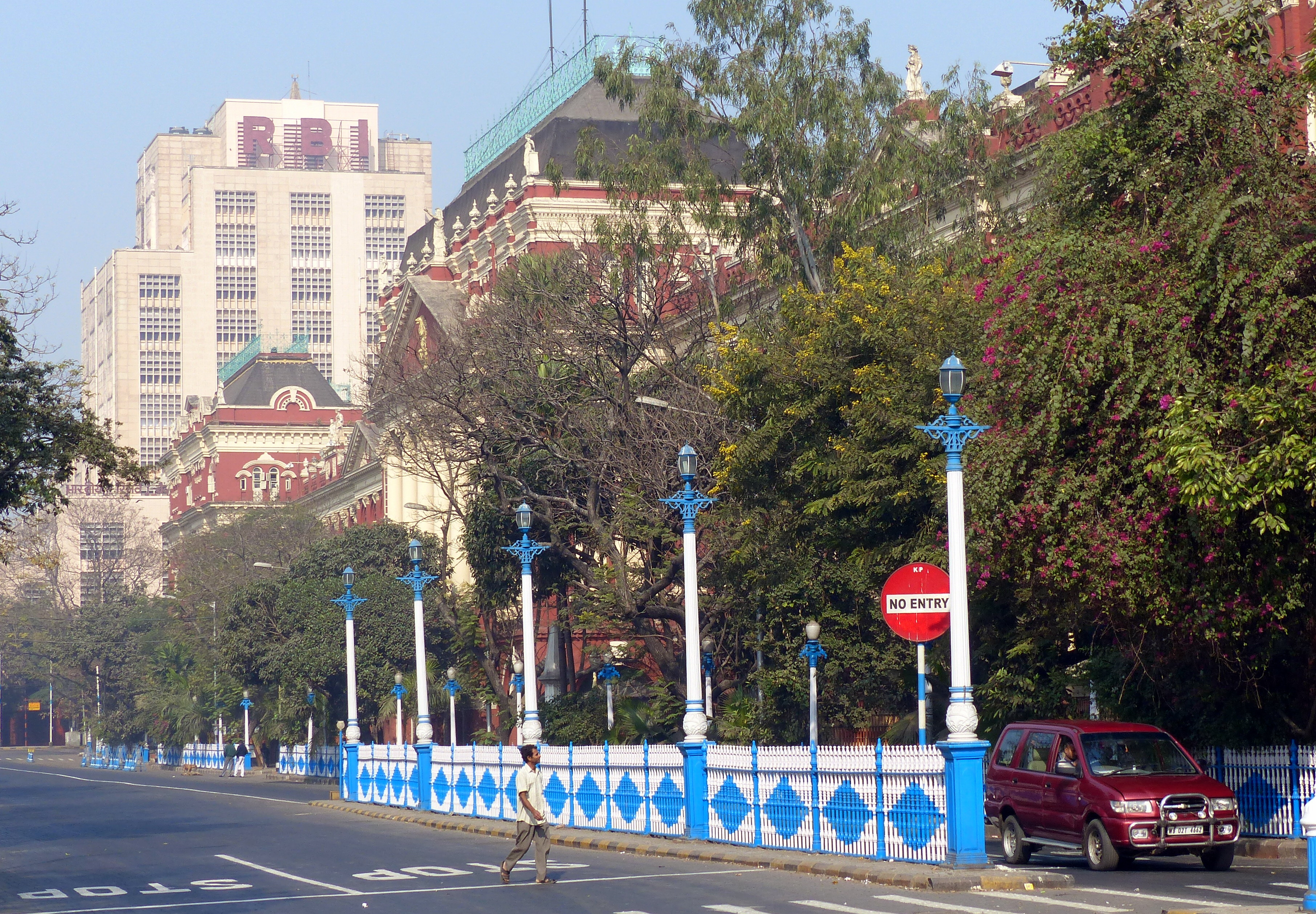 Reserve Bank of India